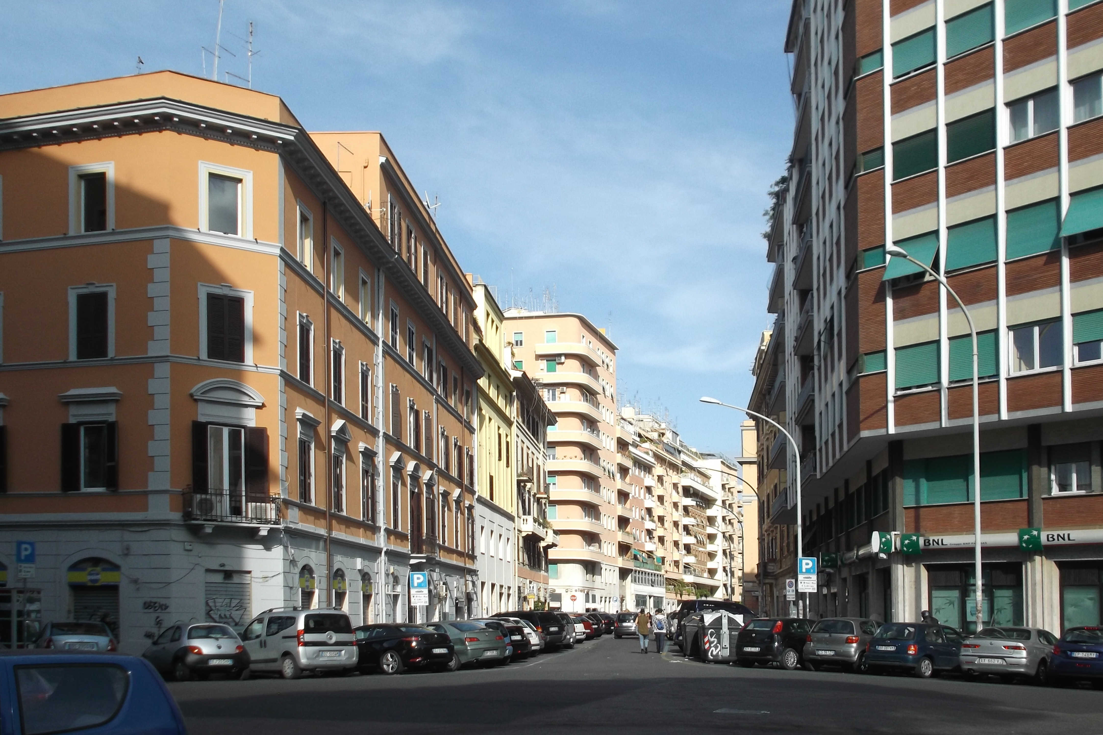 The very begining of the modern via Tuscolana, ancient road of Rome